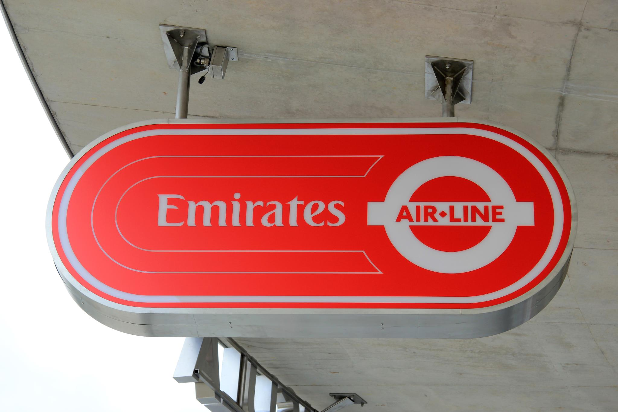 The new Thames cable car, spanning the river, opened to the public on 28th June 2012. The Emirates Air Line links the O2 Arena in Greenwich, south-east London, with the ExCel exhibition centre at the Royal Docks in east London. The service can carry 2,500 people an hour. A single adult fare on the pay-as-you-go Oyster card will cost £3.20 while the cash fare is £4.30. But the fares are not included in travelcards or Oyster capping. The service will operate through the week from 07:00 until 21:00. The gates will open an hour later on Saturdays while the service will run from 09:00 on Sundays. Passengers will also be able to make a non-stop round trip on the cable car, with views of the City, Canary Wharf, the Thames Barrier and the Olympic Park, at a cost of £6.40 with Oyster. But Transport for London said a one-way journey at peak time will be between four and five minutes long, but off-peak the same journey will last about 10 minutes. The Dubai-based airline Emirates is sponsoring the cable car for 10 years at a cost of £36m. The total cost of the project is about £60m, £45m of which went towards building it. Mayor of London Boris Johnson called it a "stunning addition to London's transport network" and a "must-see destination in its own right". "We said we could deliver this travel link in quick time, and today we have shown that this city is capable of attracting serious investment to deliver world class infrastructure. As the world's eyes focus on our city, I can think of no better message to send out across the globe."